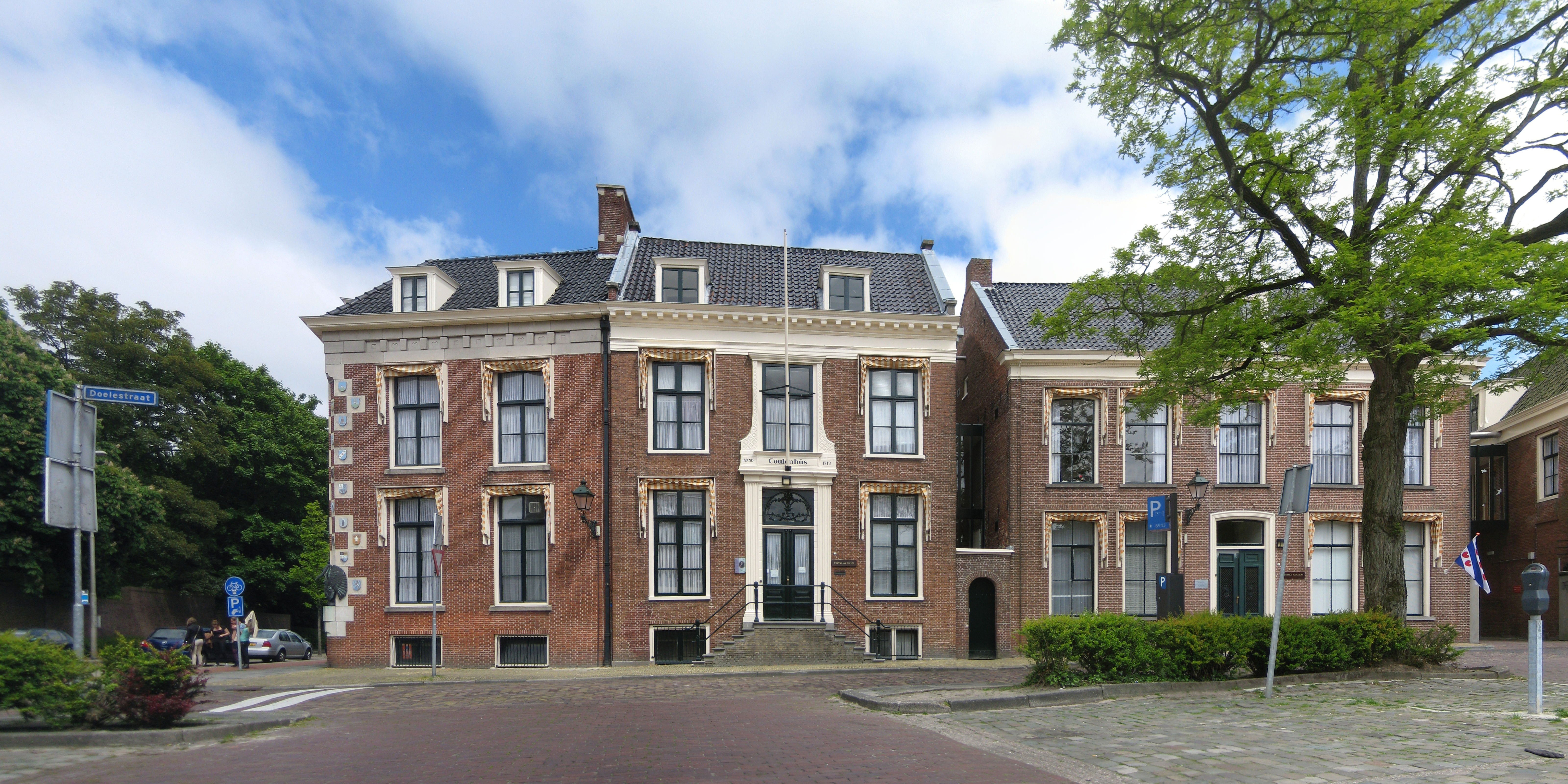 House (1713) in Leeuwarden, the capital of the Dutch province of Fryslân.